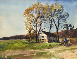 Gregor Alexander Heinrich von Bochmann, "Spring landscape near Hösel" (1910), water color on paper. 37.8 x 49.6 cm